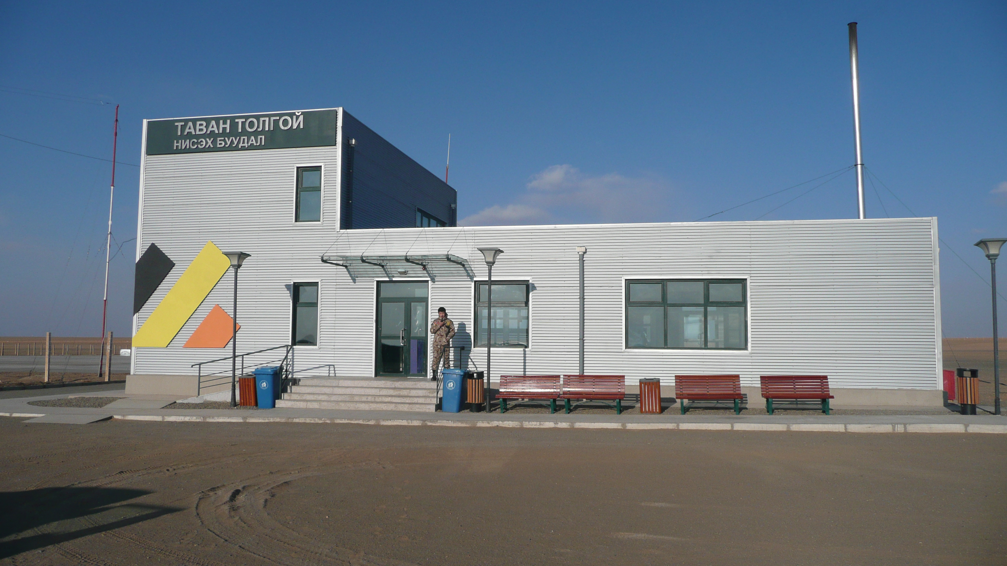 Airport UHG in Tsogttsetsii (South Gobi)